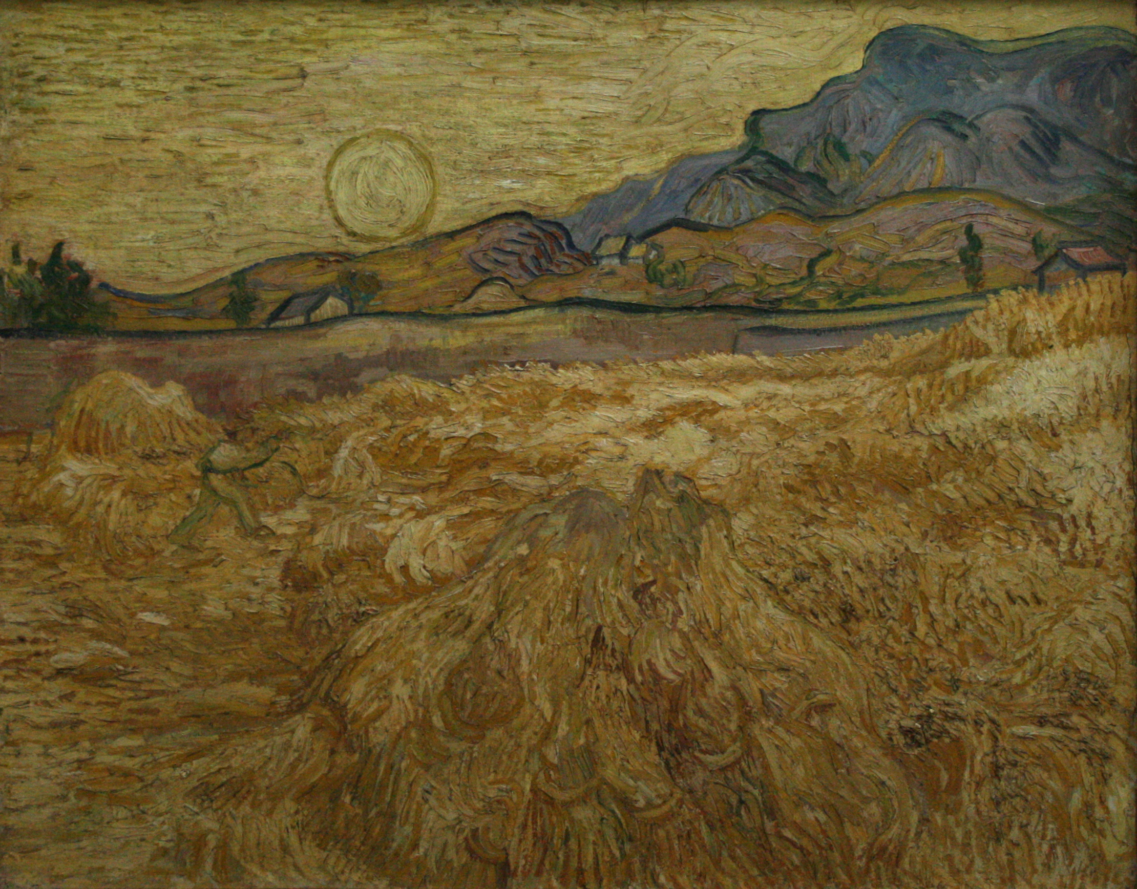 Wheat field with reaper and sun; nl: Korenfeld met maaier en zon